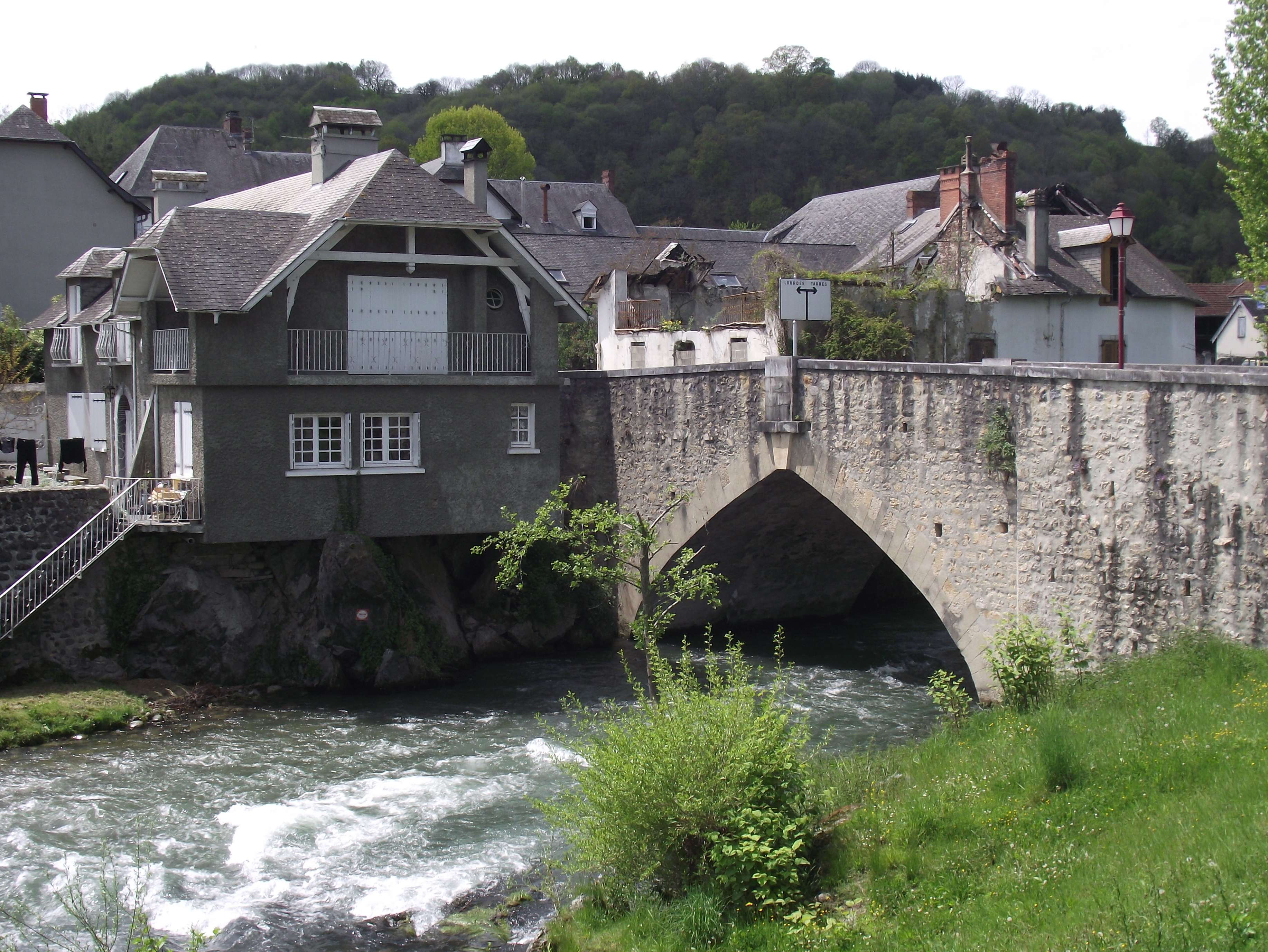 Devil's Bridge in Montgaillard, Hautes-Pyrénées, France.